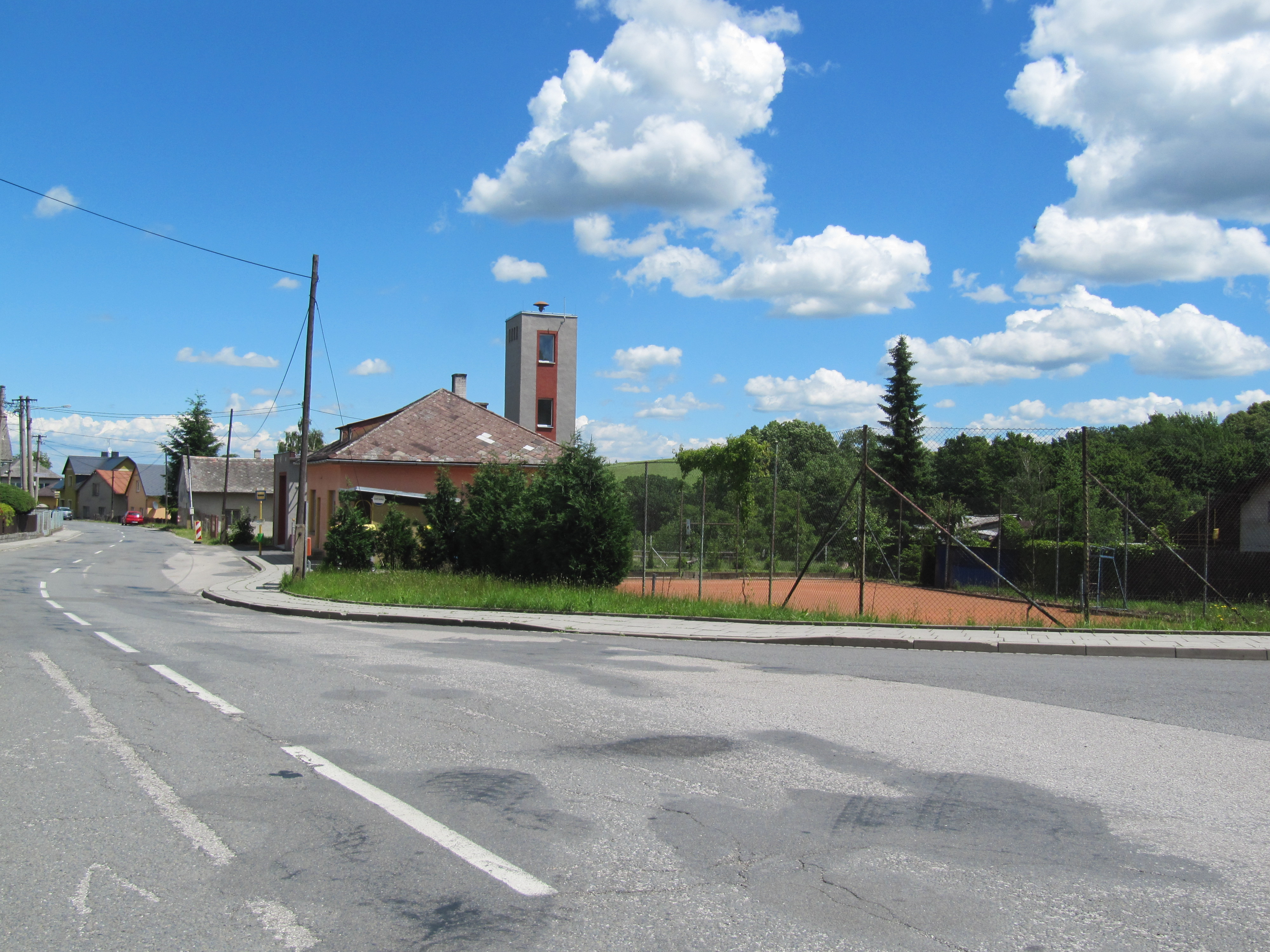 Opava, Czech Republic, part Komárovské Chaloupky.